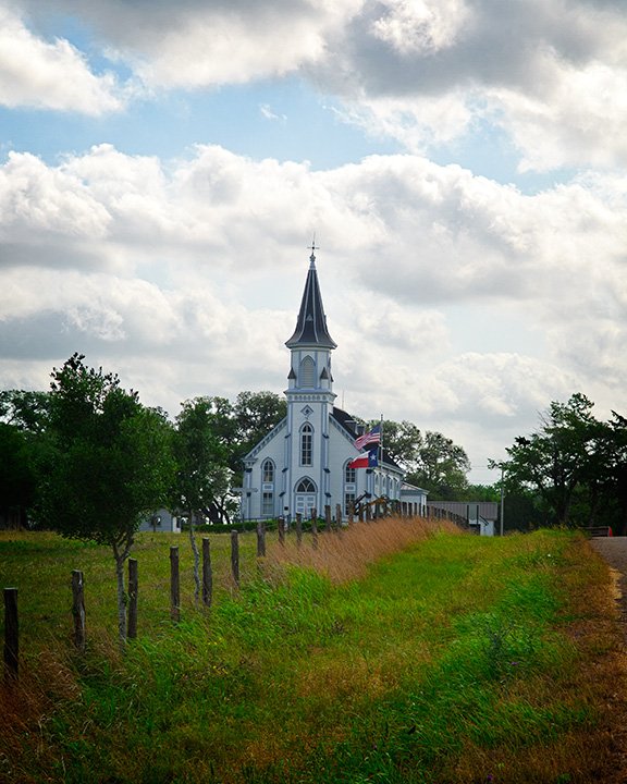 Distant view of Sts. Cyril & Methodius Church in Dubina, Texas